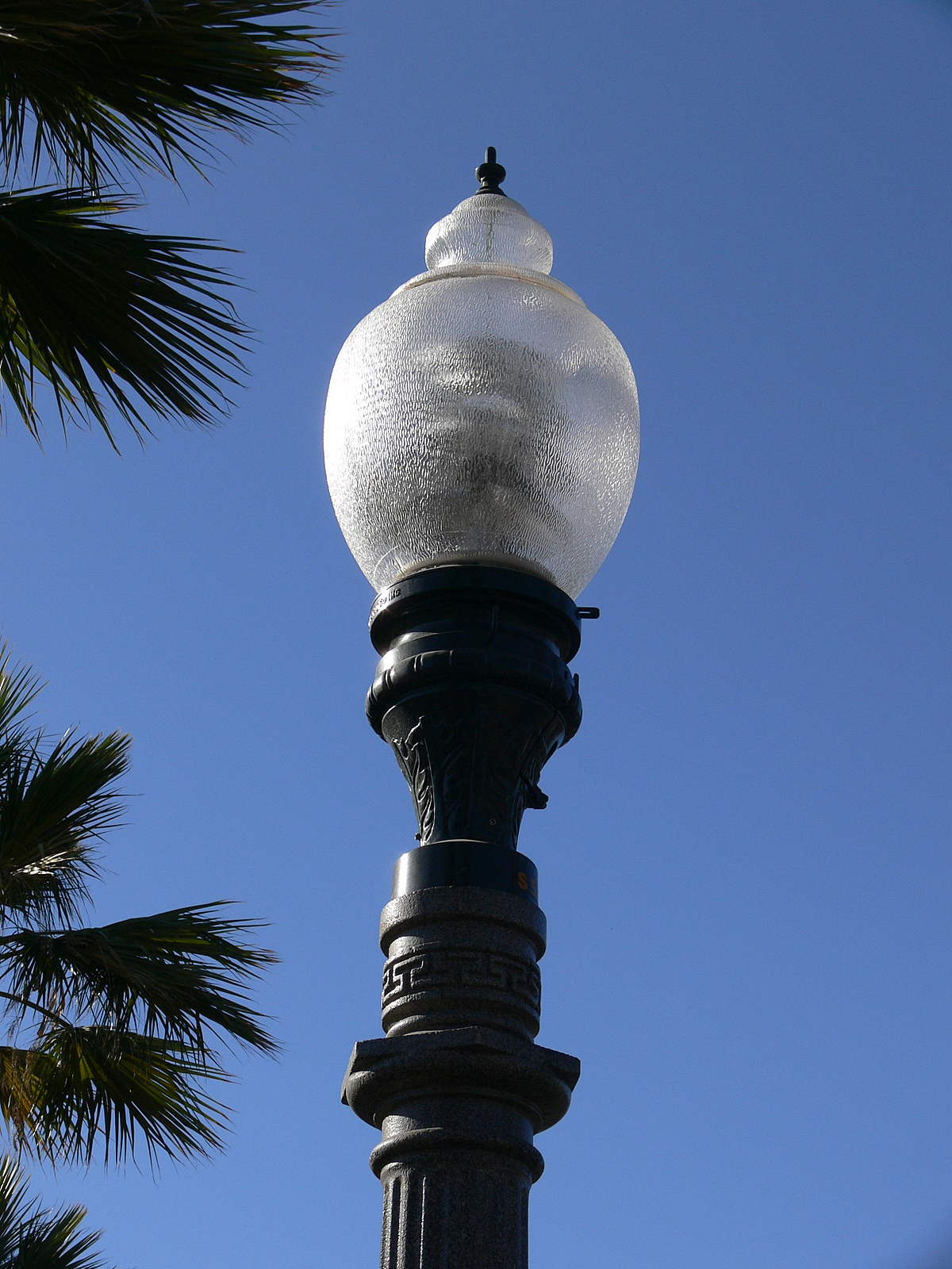 The image represents a single lamp post lantern (light pole) of the City of Phoenix, Arizona, USA.